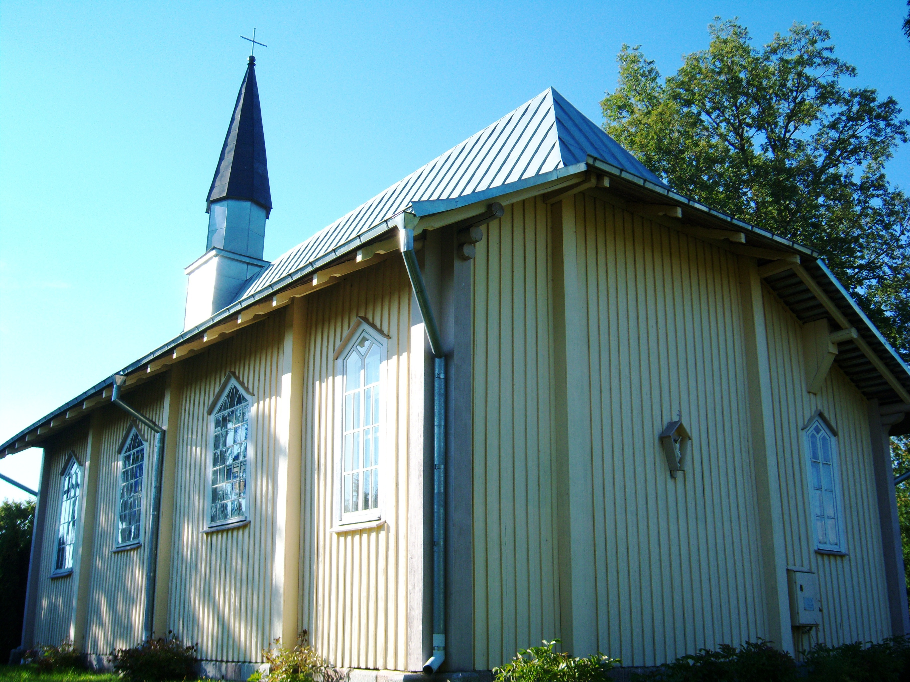 Mikoliškiai Catholic Church, Kretinga District, Lithuania